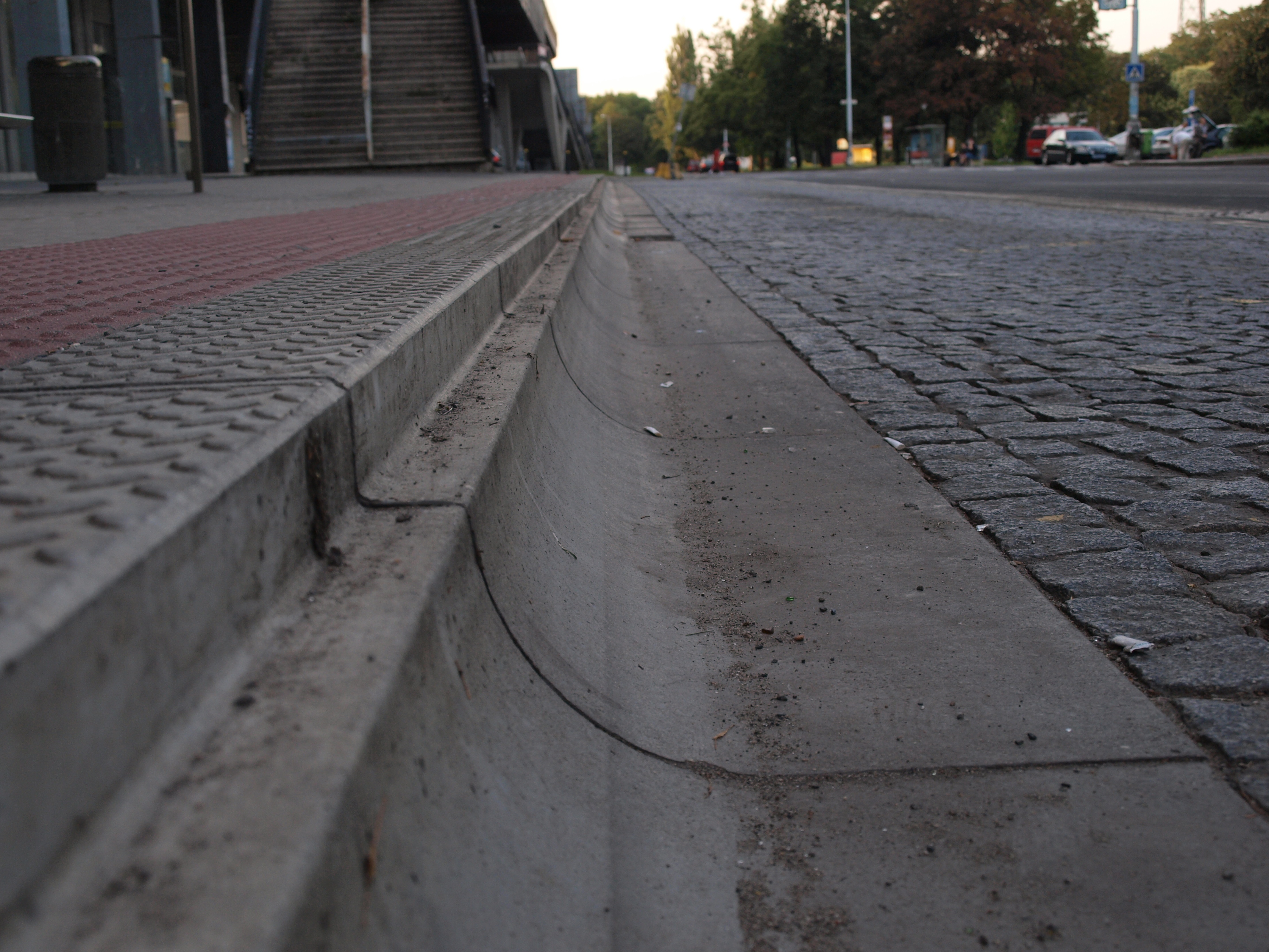 Kassel kerb, detail; bus stop Koleje Strahov toward Anděl in Prague